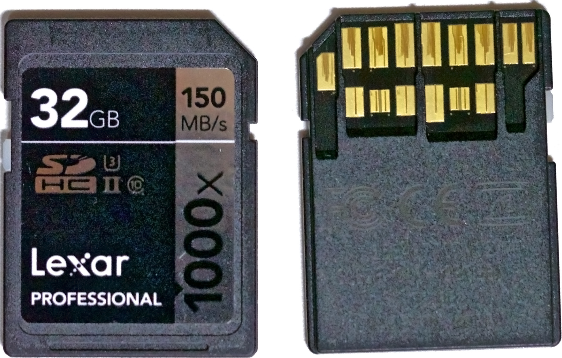 Front and Back of a Lexar Professional 1000x 32GB SDXC UHS-II/U3 Card